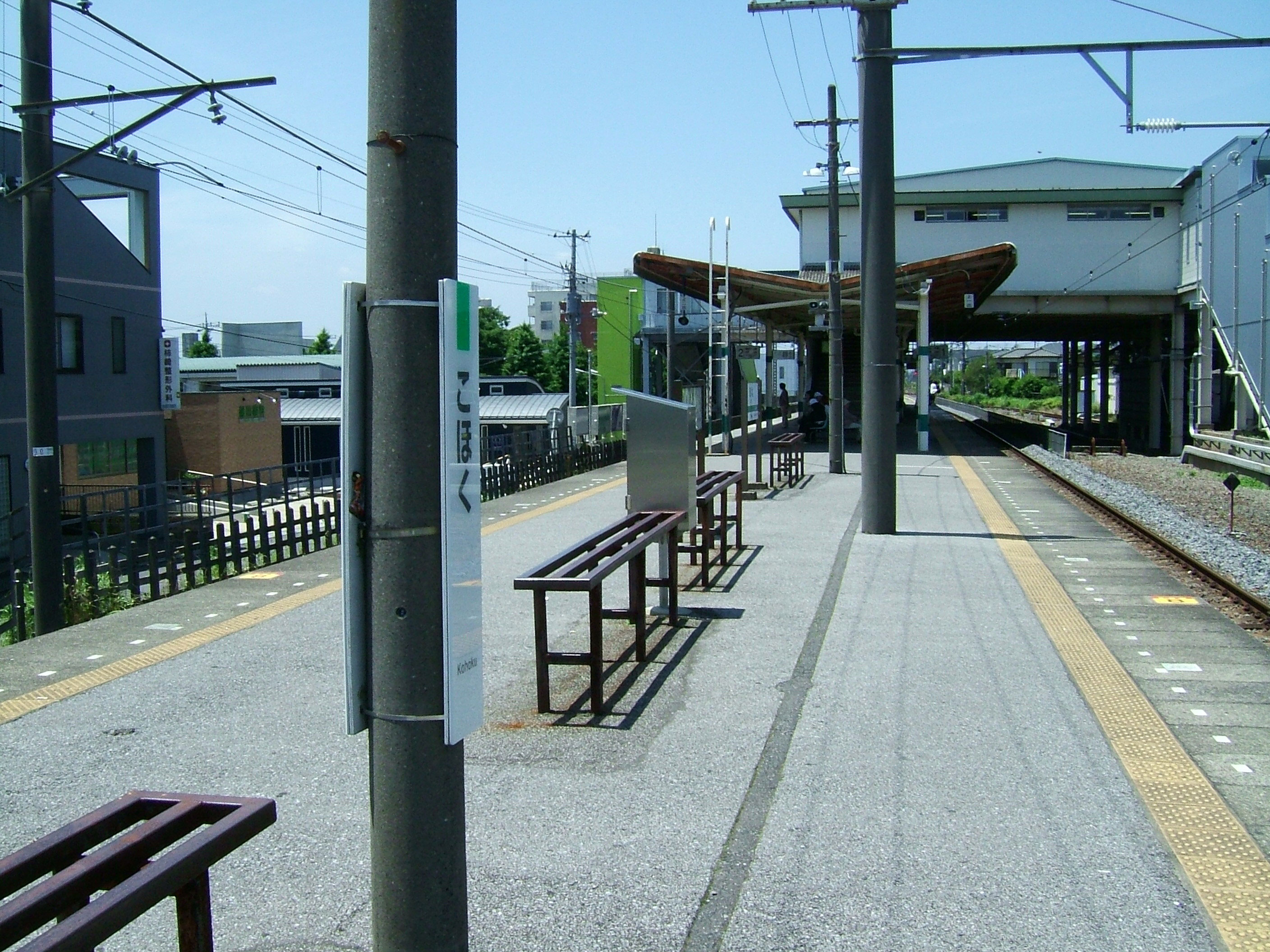 Kohoku Station platform (East Japan Railway Narita Line)